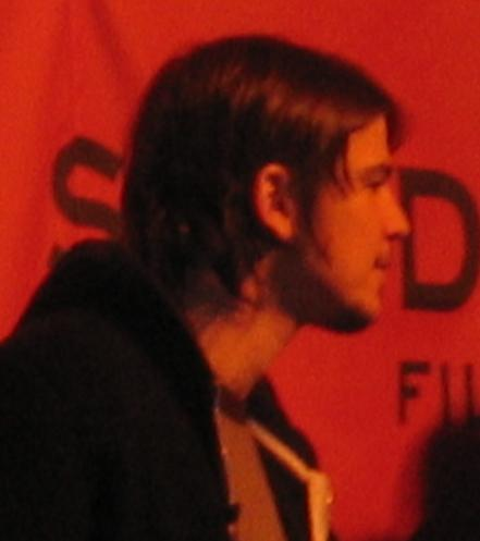 Josh Hartnett at the Sundance Film Festival (cropped)